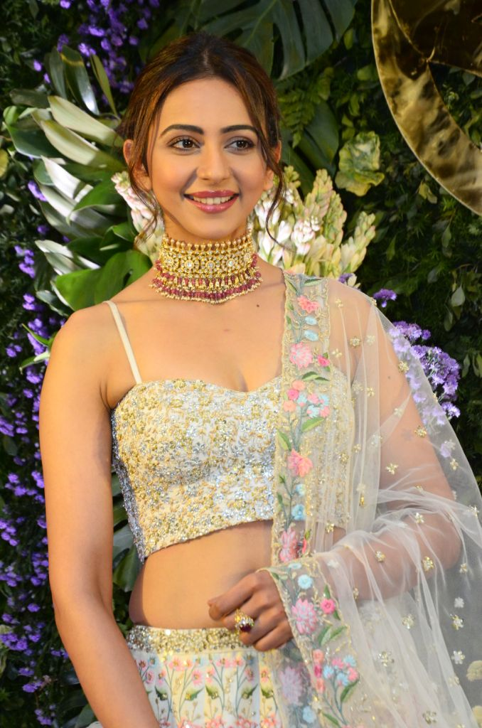 Rakul Preet Singh graces Saina Nehwal’s wedding reception